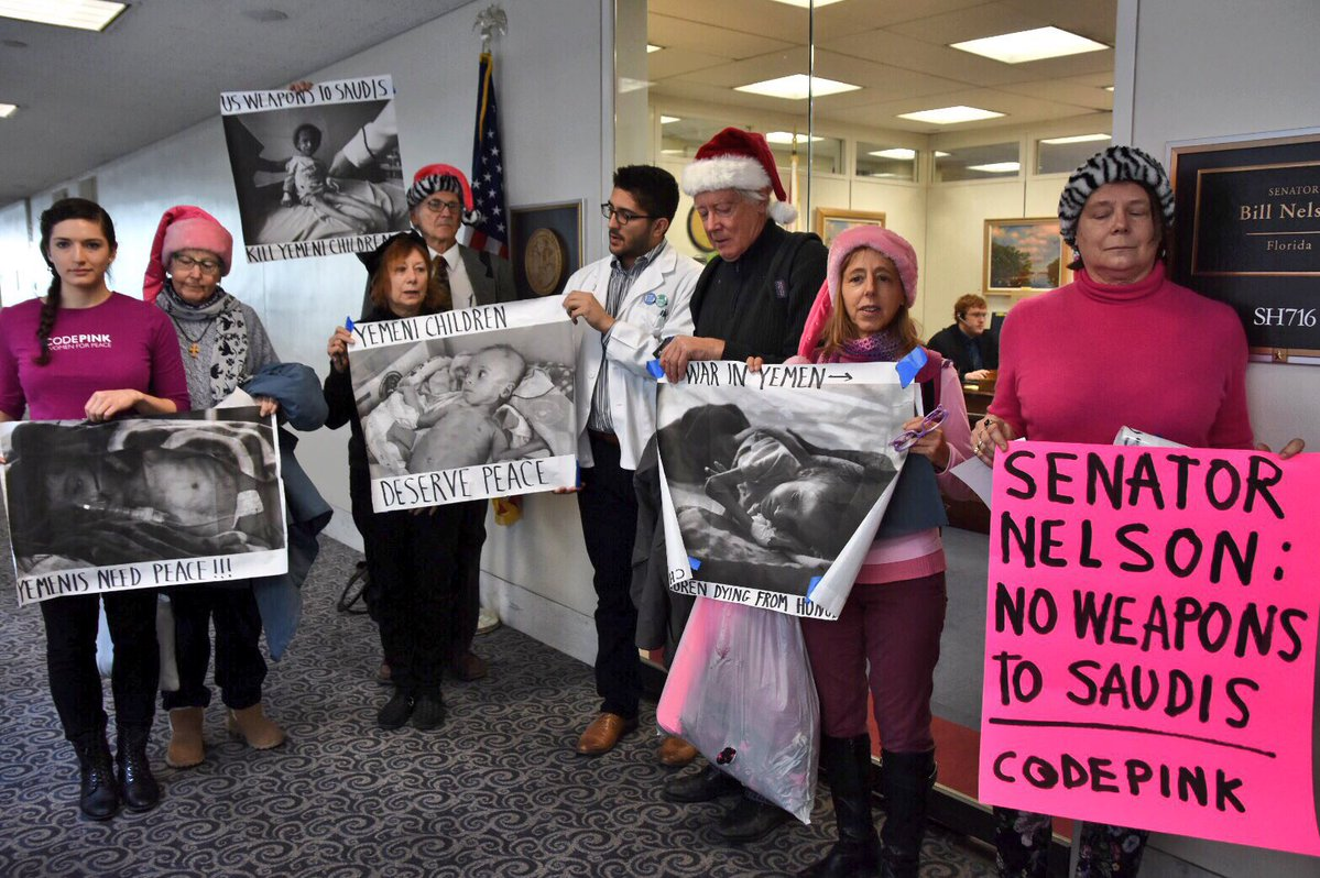 161 Code Pink at Senator Nelson